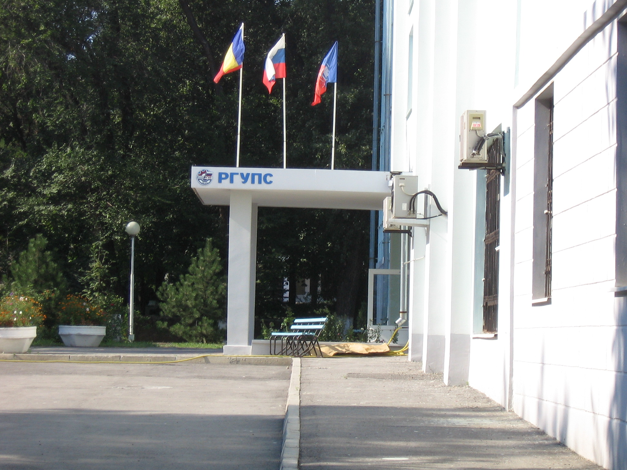 RGUPS,(Rostov-on-Don)